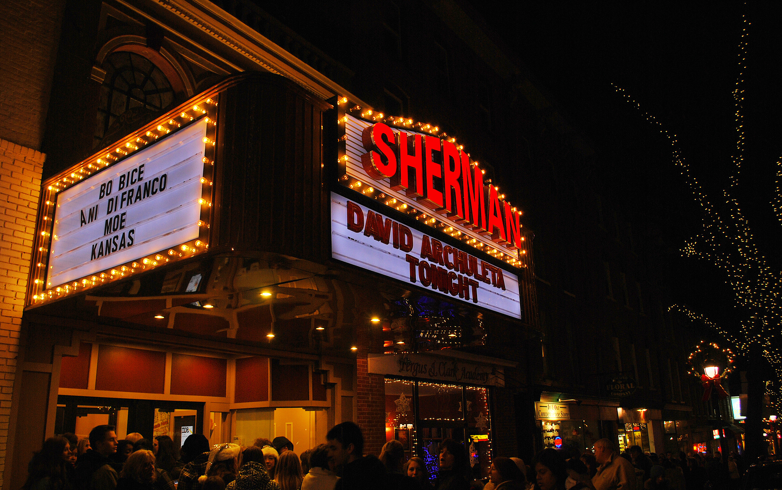 The Sherman Theater marquee